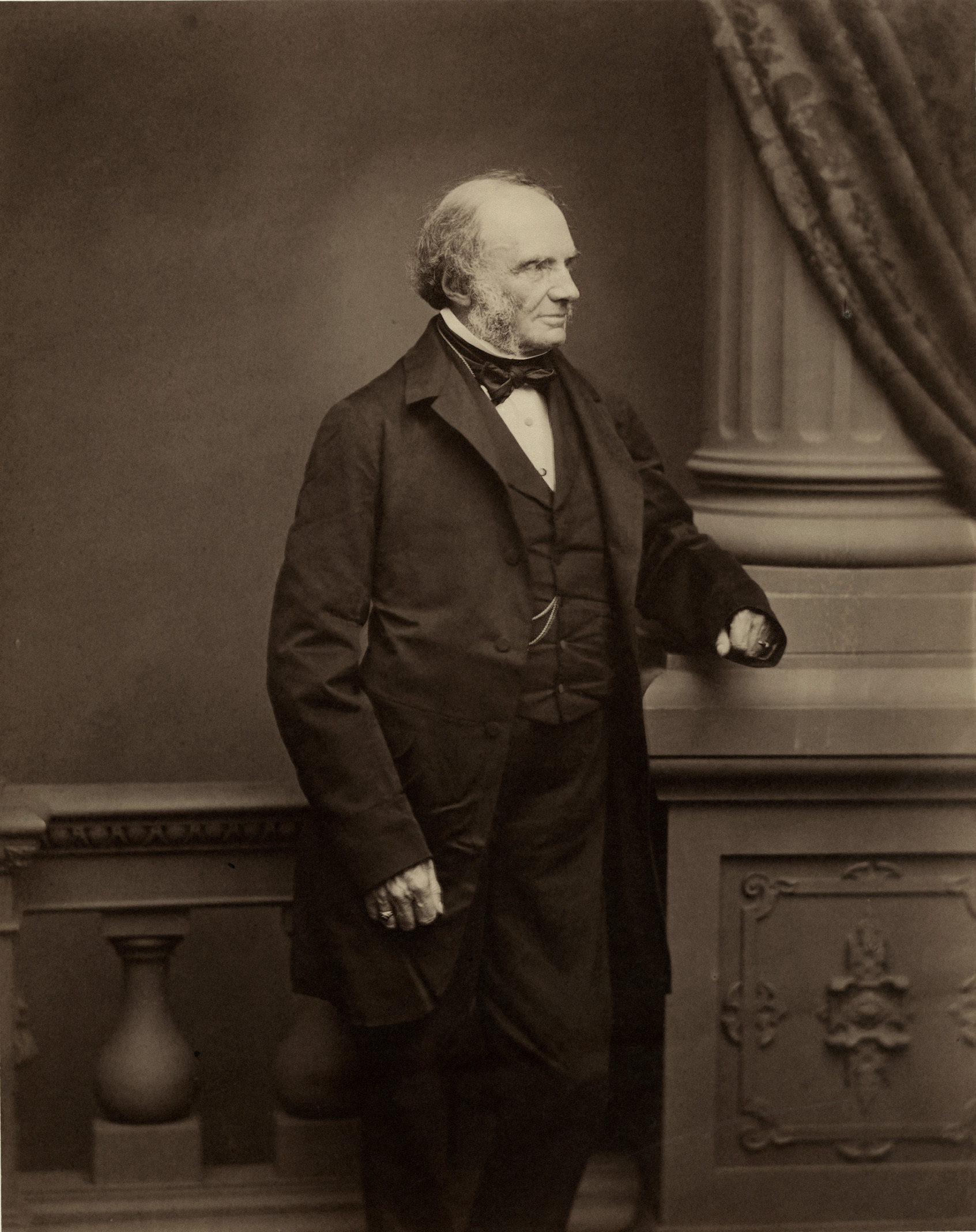 Depicted person: John Russell, 1st Earl Russell – leading Whig and Liberal politician who served as Prime Minister on two occasions